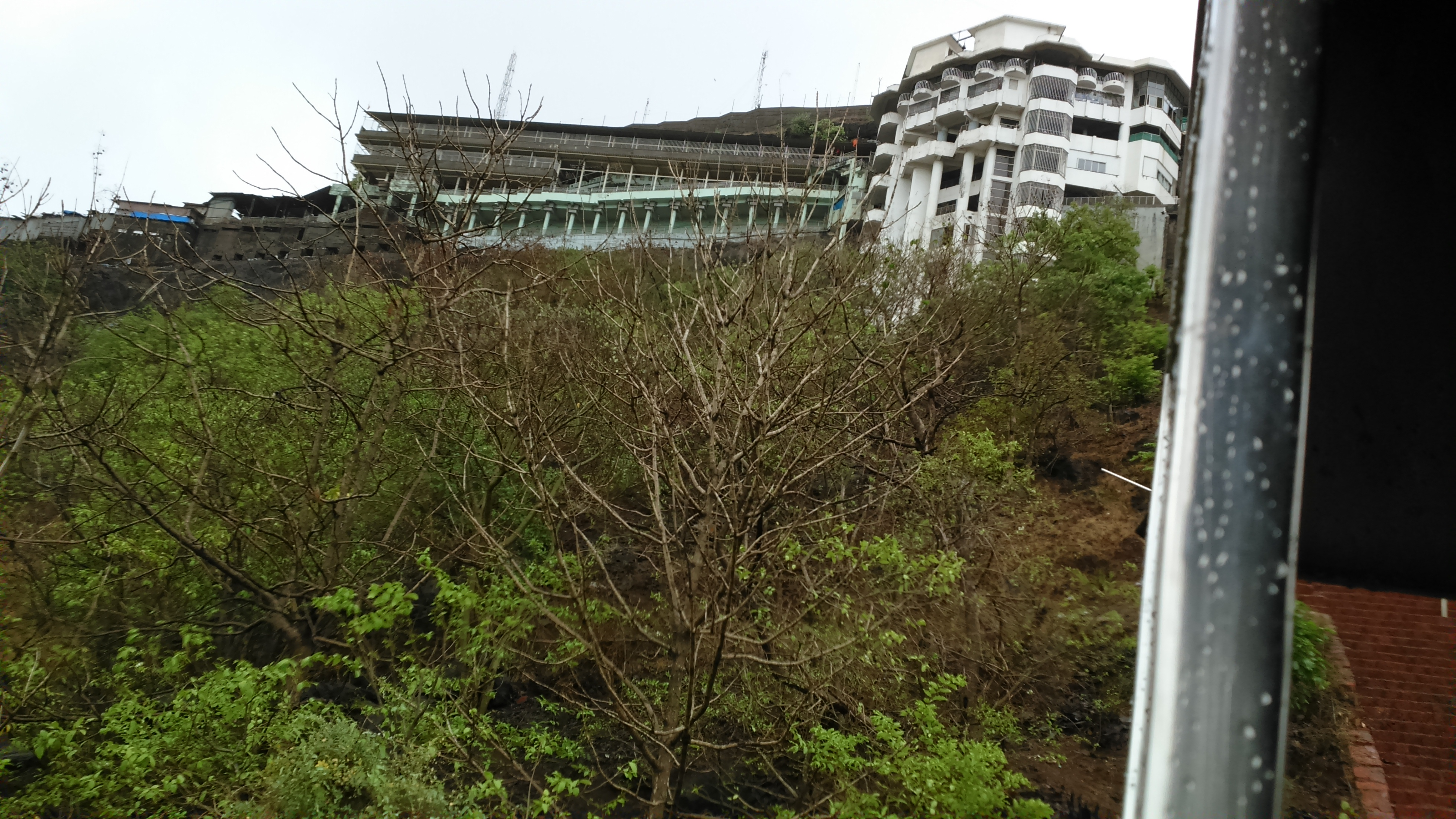 Jivdani Temple